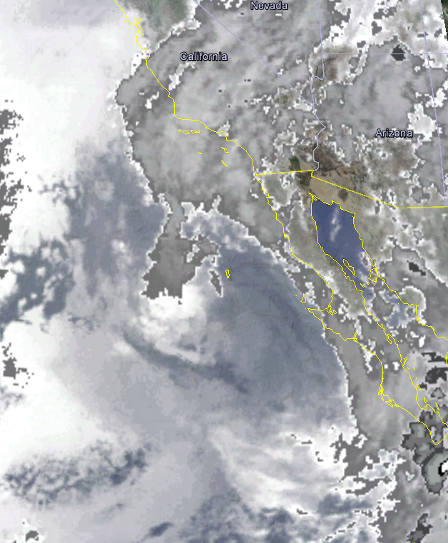 Hurricane Ismael on 1983-10-14